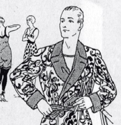 Illustration of an article in Men's Wear. The robe "is of intensely colored silk figures in blue, green, red, blue [sic] and black. It is lined with white rough towelling".